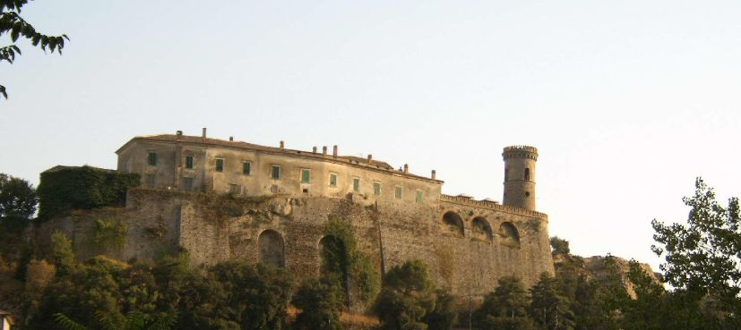 Caccuri, castle from Parte Street